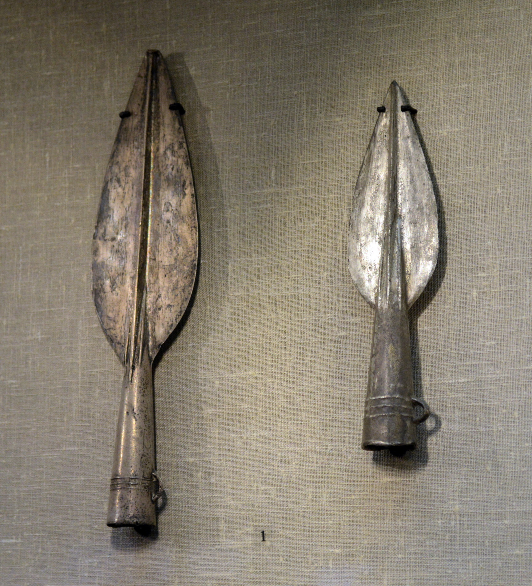 Silver spearheads, end of 3 - begin of 2 mill. BC, Perm' region.